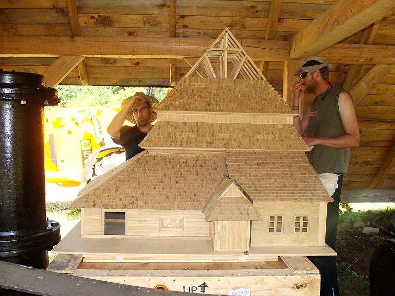 a scale model of the synagogue at Sanok Skansen